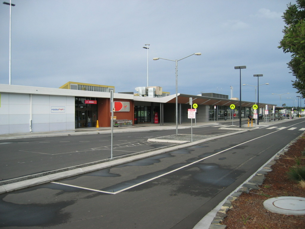 The domestic terminal at Hobart Airport. Photo taken by User:Adz in April 2006.